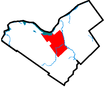 Locator map of Nepean, Ontario, a suburb of Ottawa, Ontario. This map is showing the extent of Nepean within what is now the City of Ottawa c. 2000.